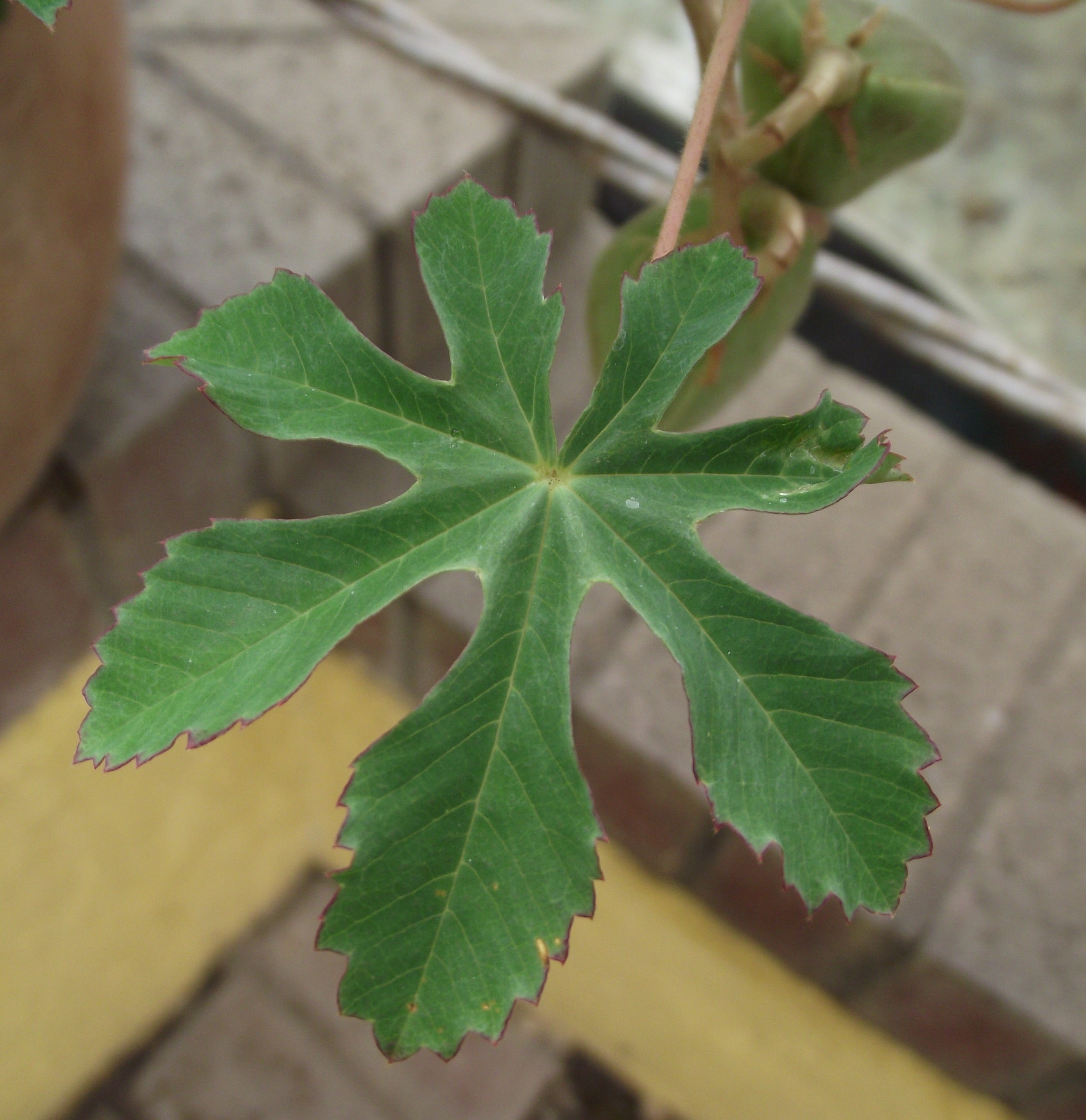 Amoreuxia gonzalezii at Tucson Botanical Gardens, Tucson, Arizona, USA. Identified by sign.